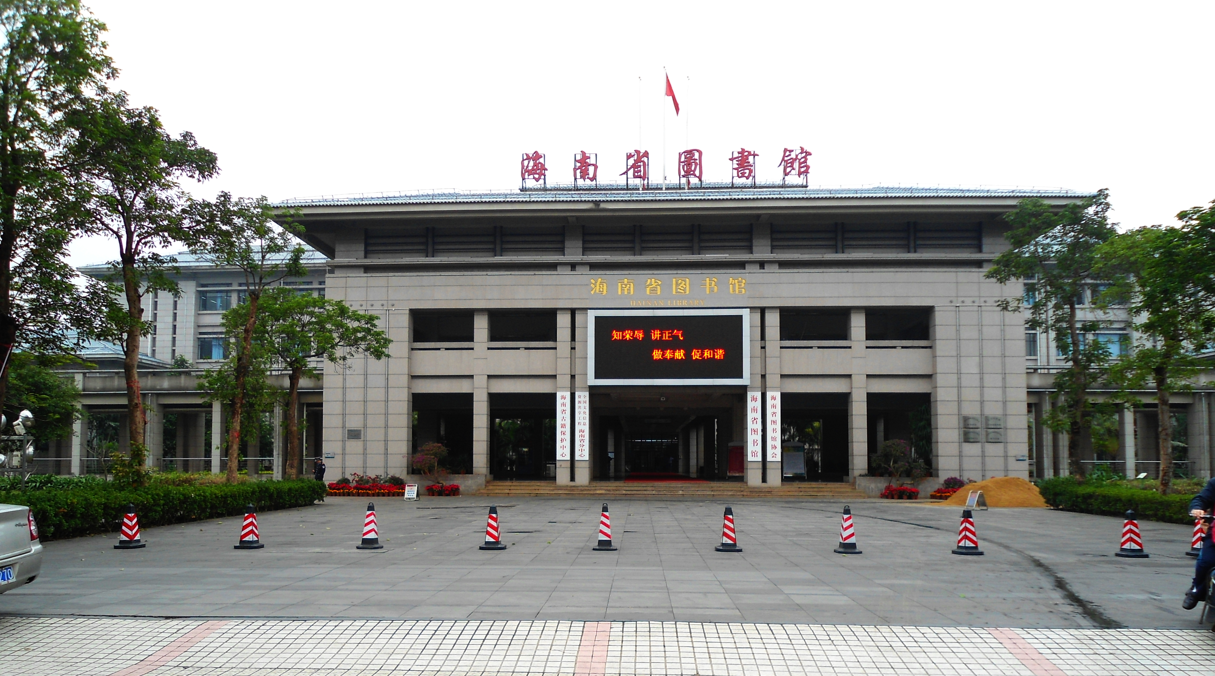 Hainan Library, Haikou city, Hainan Province, China.